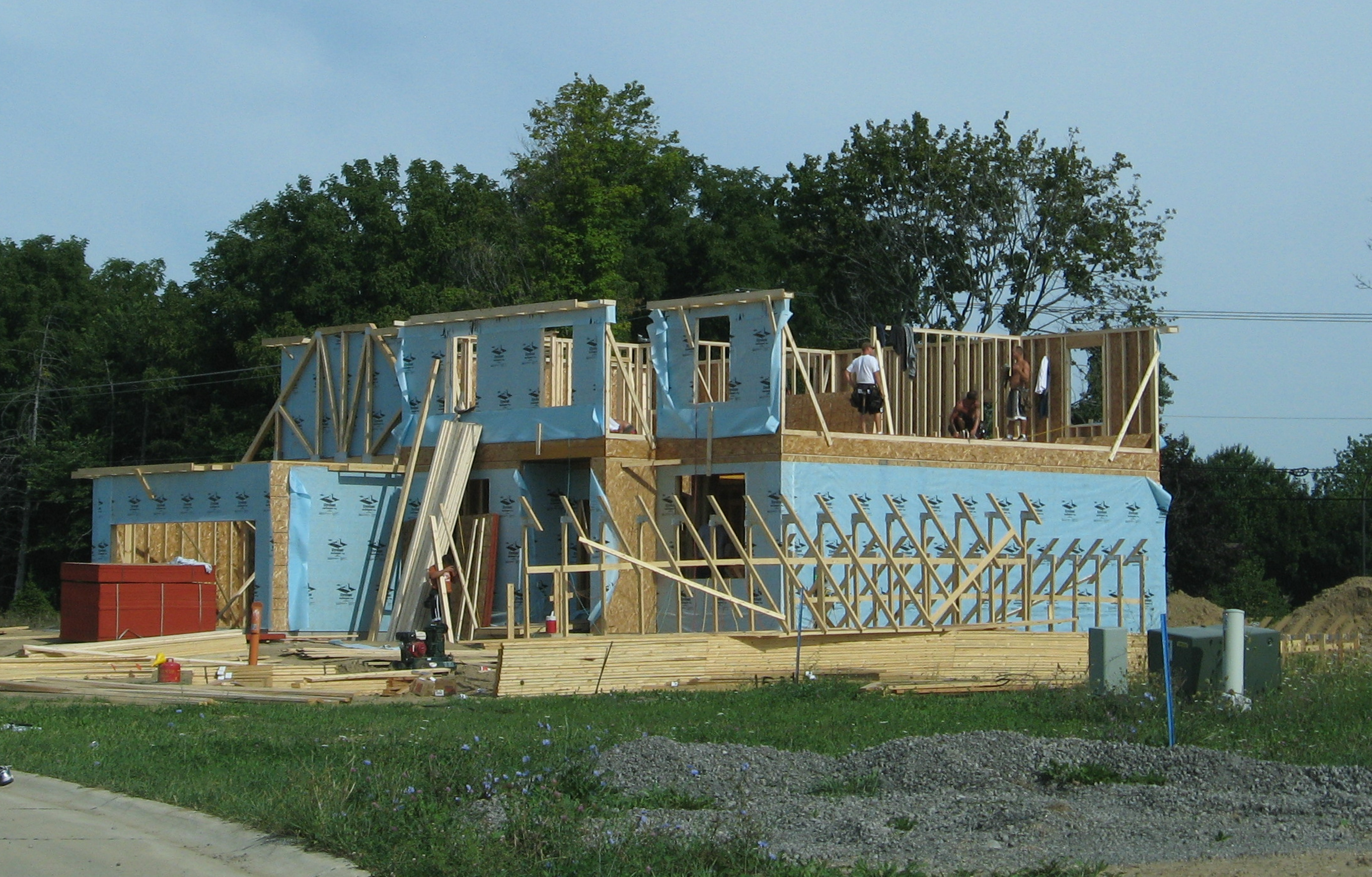 New home construction, Silverleaf subdivision, Lot # 138, Cherry Blossom Drive, Pittsfield Township, Michigan. The new house is just west of existing house at 4069 Cherry Blossom Drive.